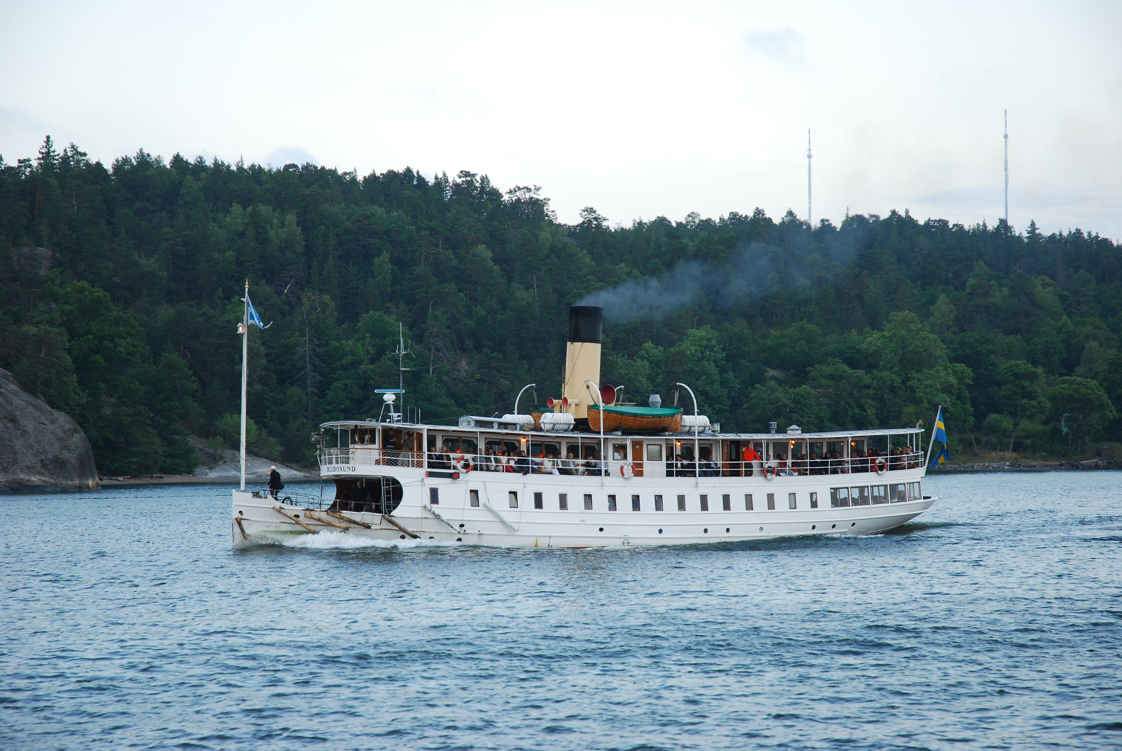 S/S Blidösund. Photo: Bengt Oberger